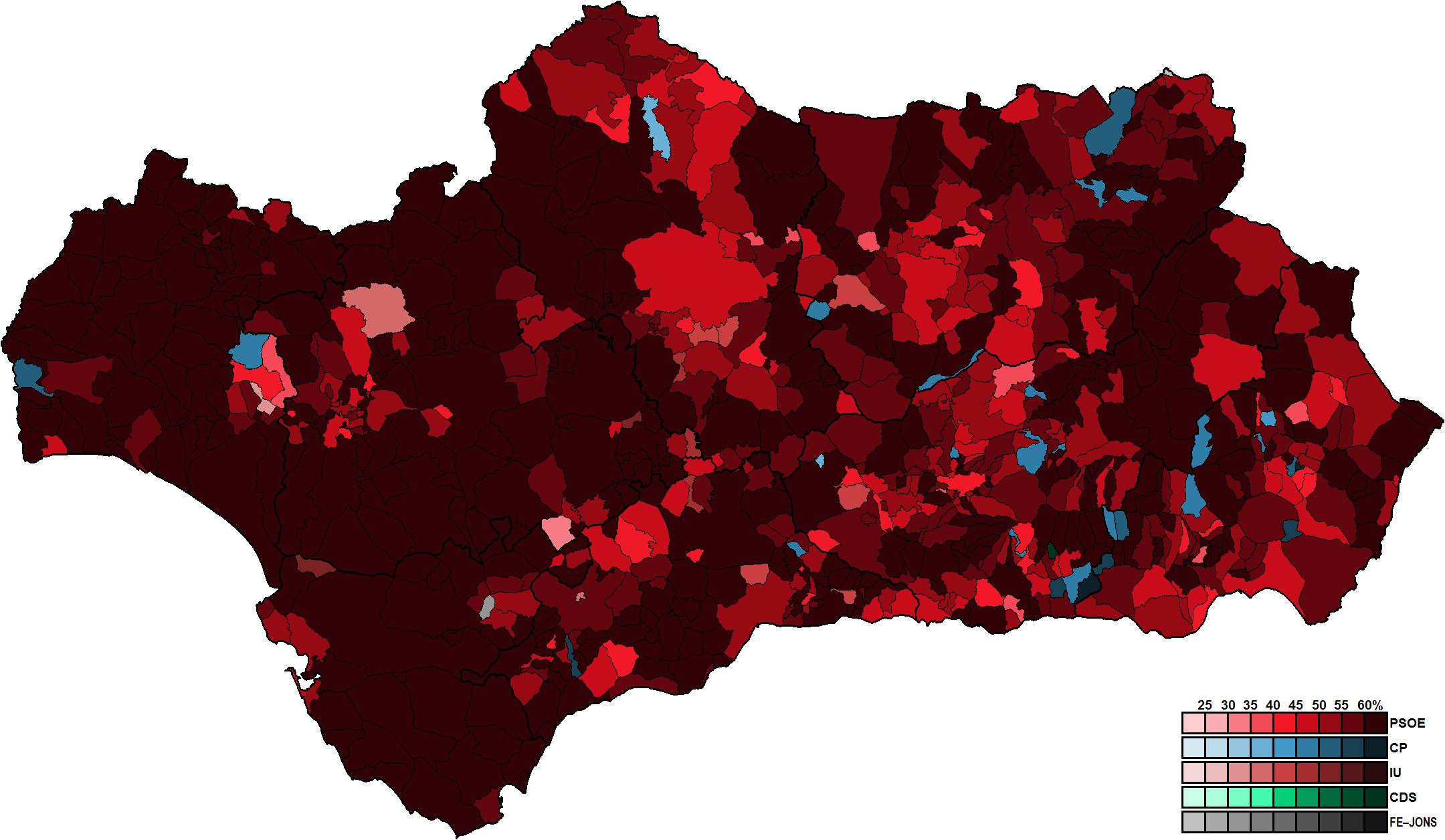 Most-voted party in Andalusia municipalities, showing vote share obtained, in the Spanish general election, 1986.